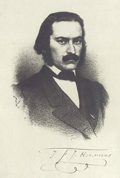 Flemish Jacob Heremans (1825-1884)